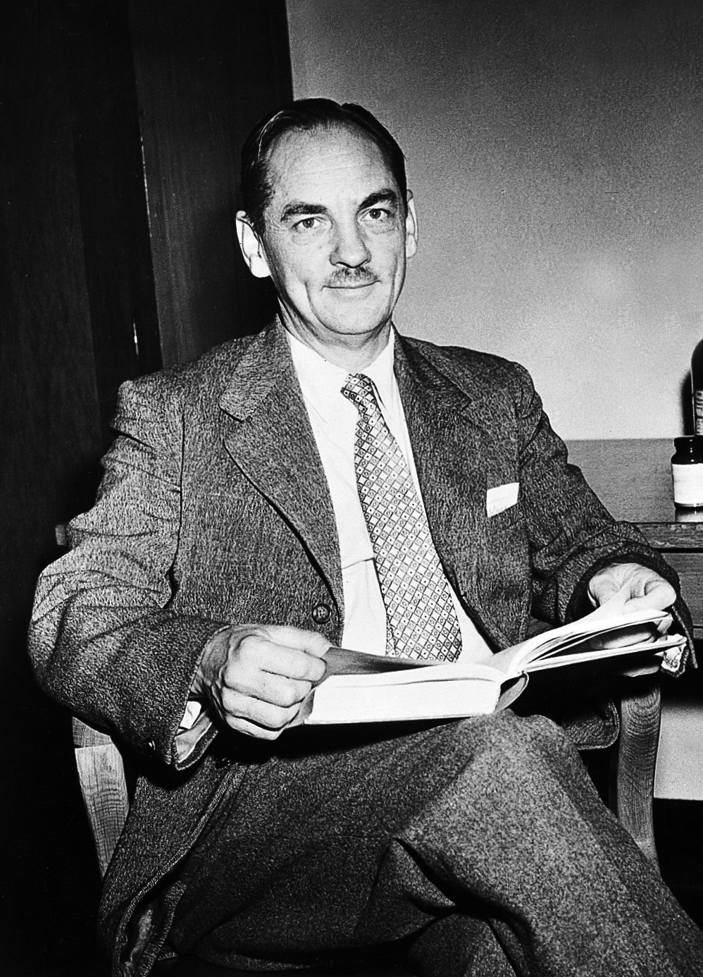 George Herbert Hitchings (April 18, 1905 – February 27, 1998)